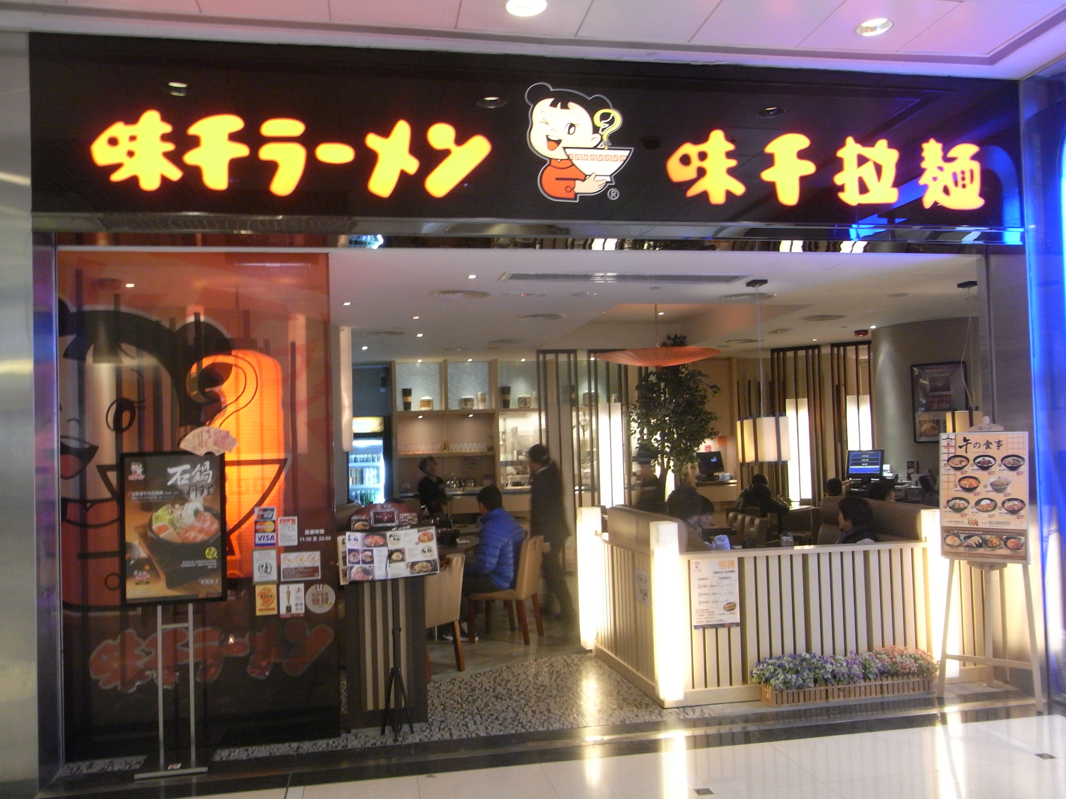 香港島